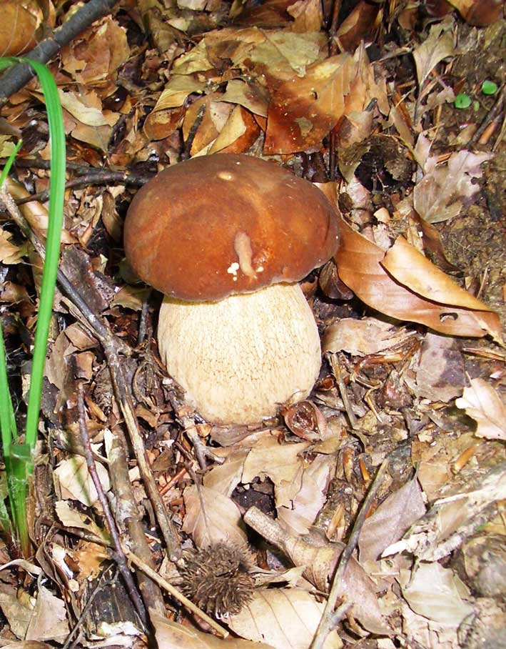 Image of Boletus in Šumadija